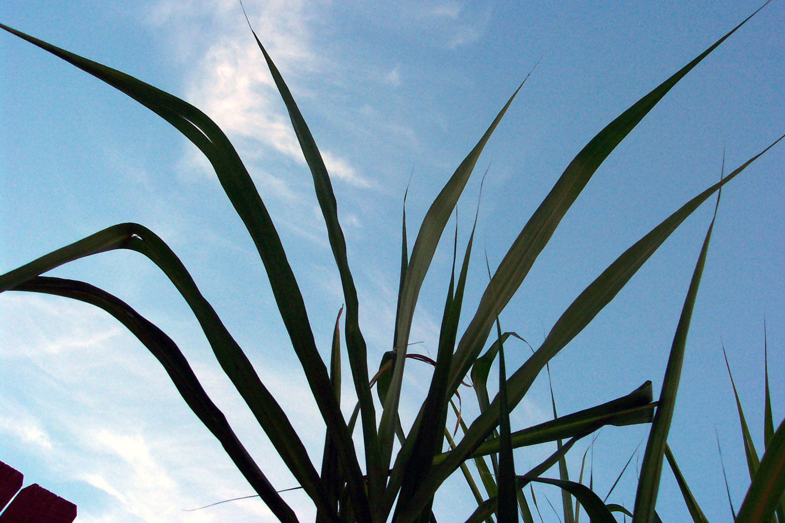 Sugarcane leaves Taken by Enoch Lau on 24 December 2003. As a courtesy, please let me know if you alter this image or this image description page. Original filename was 100_1942.JPG.